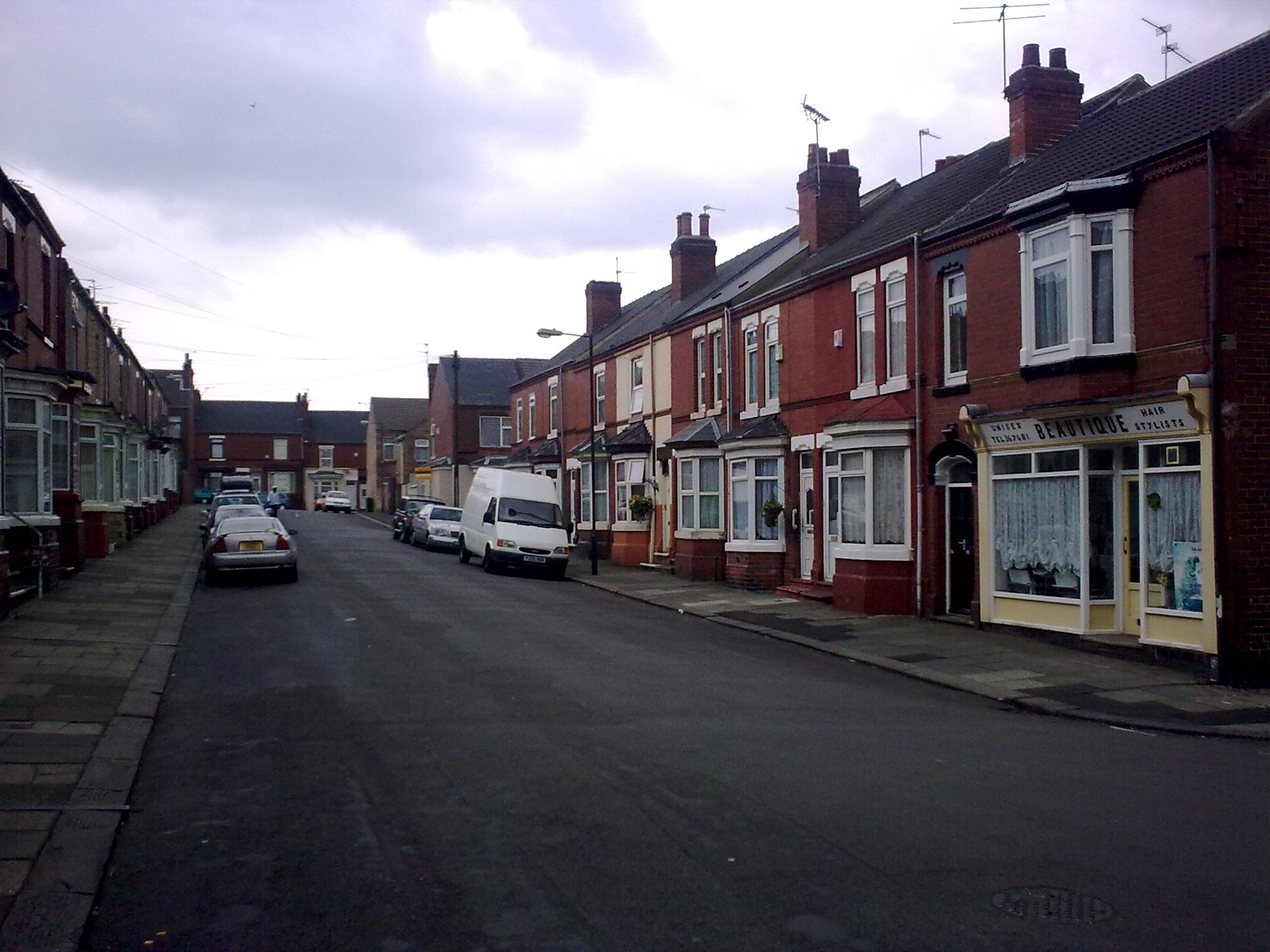 The hairdresser's salon situated on Lister Avenue in Balby (a suburb of Doncaster in the North of England), used for the exterior shots on the BBC television sitcom Open All Hours